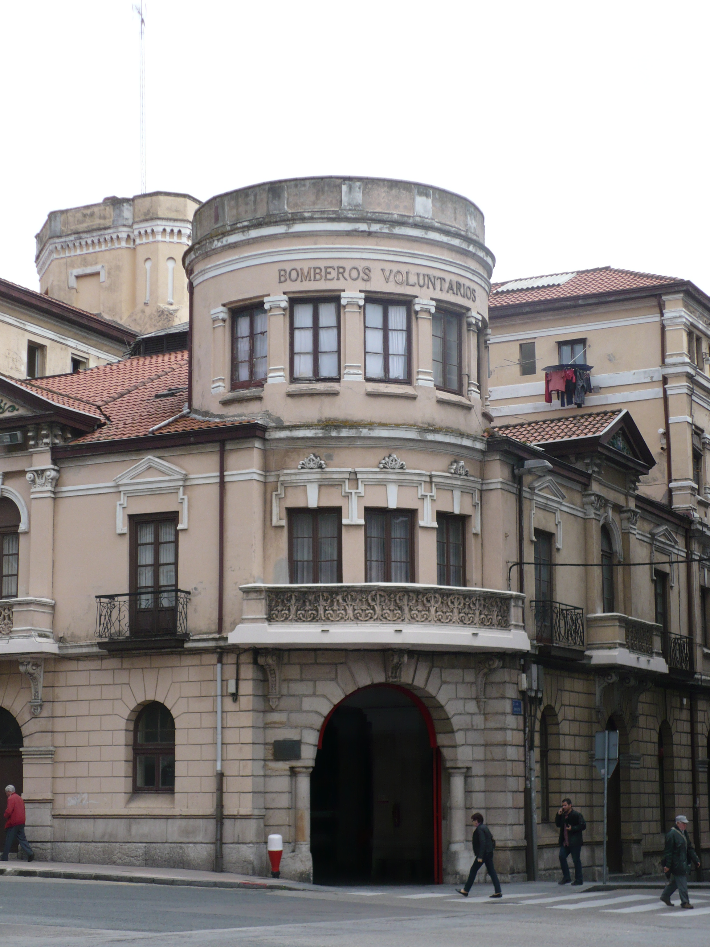 The 1905 headquarters of the Royal Volunteer Fire Brigade of Santander (Cantabria), projected in 1899 by Valentín R. Lavín Casalís